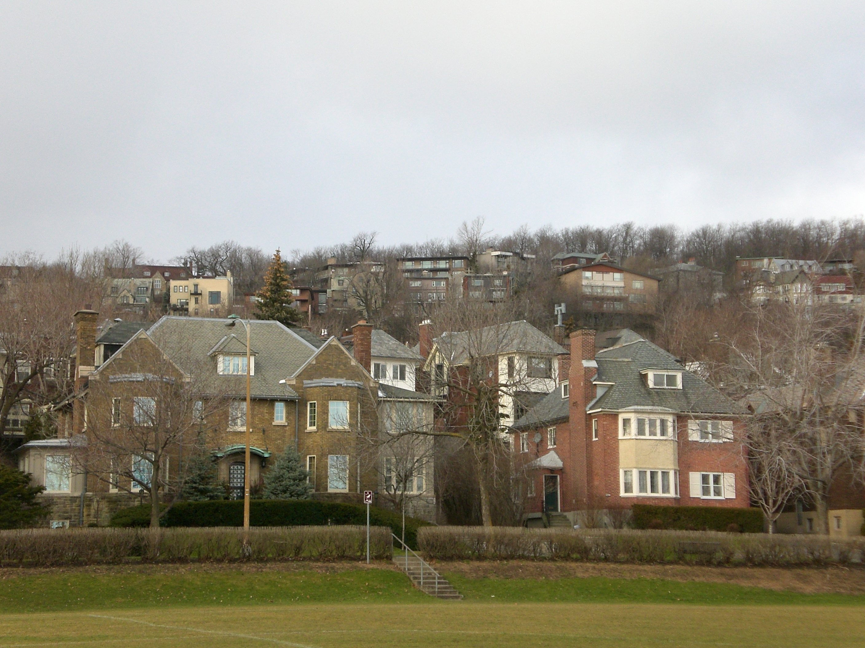 Looking up the mountain from Murray Park.